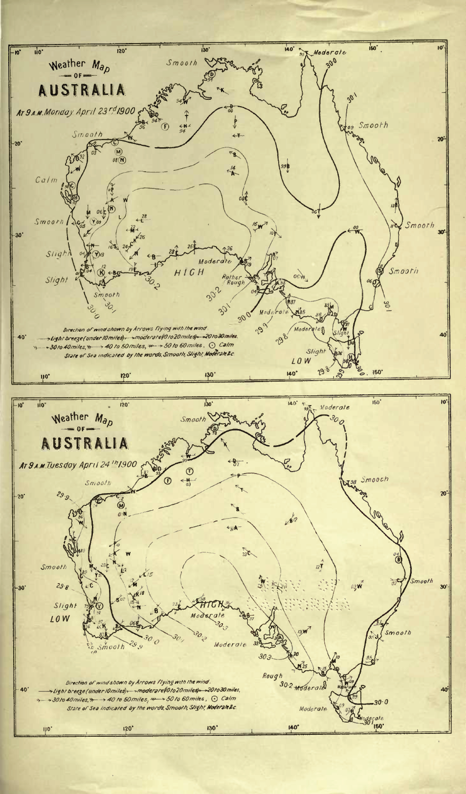 Weather map of Australia for 23 and 24 April 1900. From "The climate of Western Australia, from meteorological observations made during the years 1876-1899" by Cooke, W. Ernest (William Ernest), b. 1863. pp.15